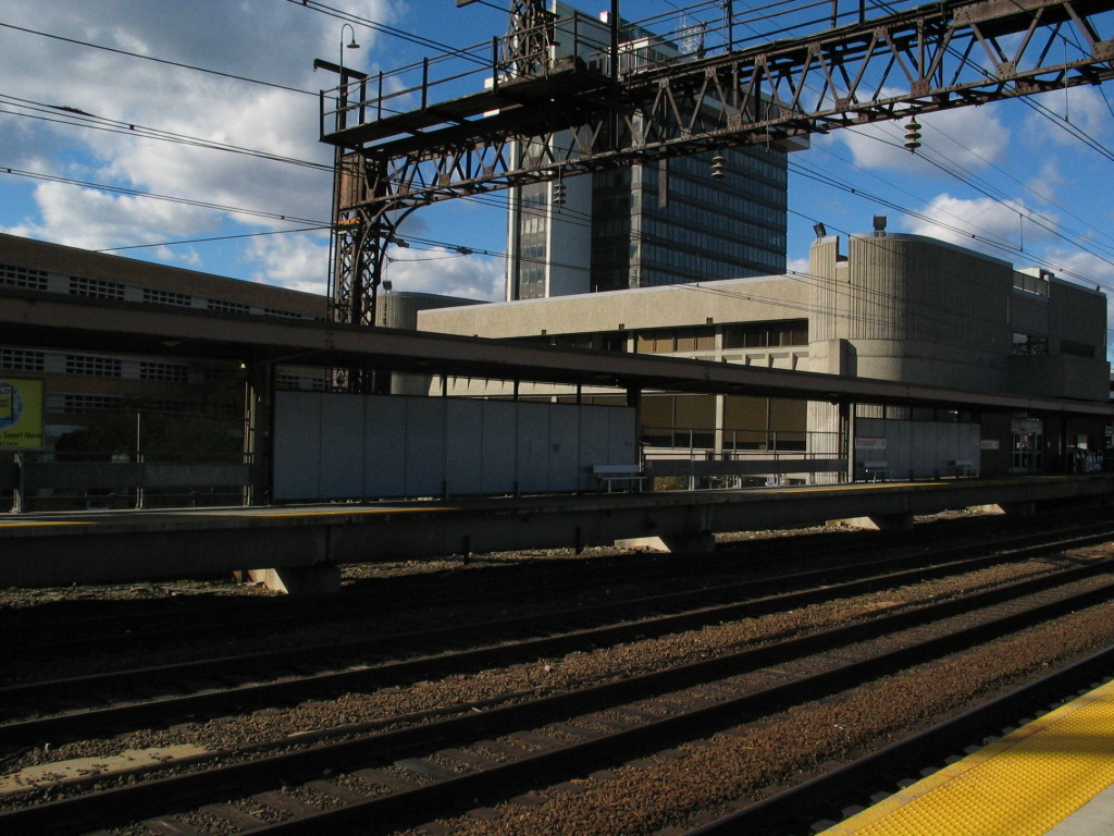 Summary A typical example, of catenary supporting system on Northeast Corridor stretch in USA. The photo is taken from eastbound track of Bridgeport, Connecticut station. Category:Images of Connecticut 02:47, 10 December 2005 GK tramrunner 1024x768 (287459 bytes)